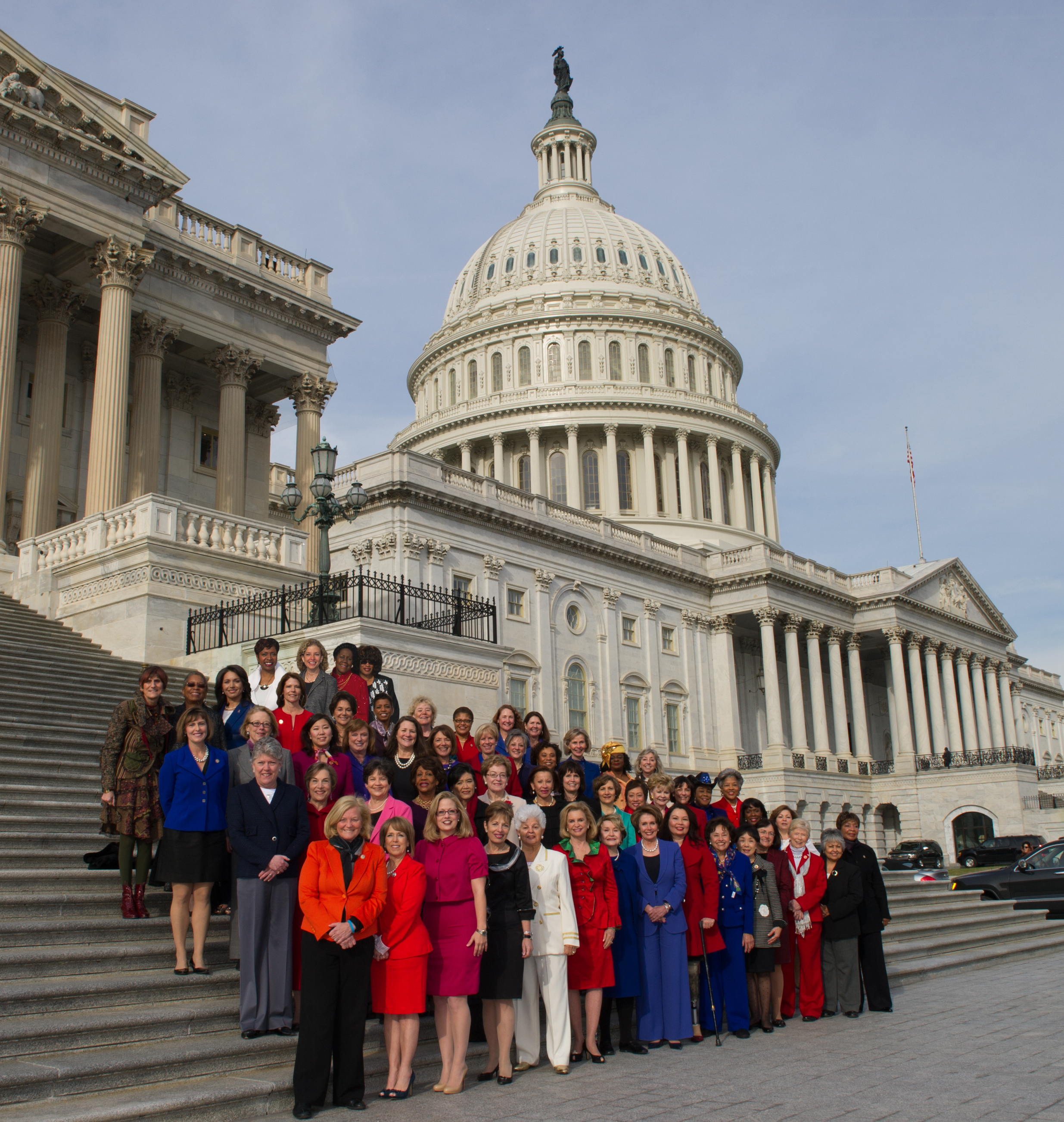 House Democratic Women of the 113th Congress